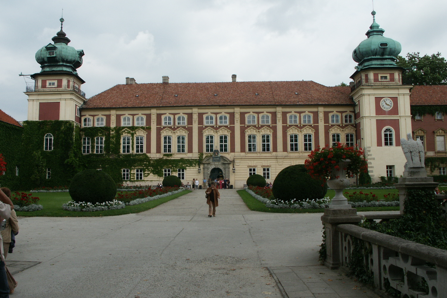 A palace in Łańcut, Poland. Author: user:Pibwl, 2004